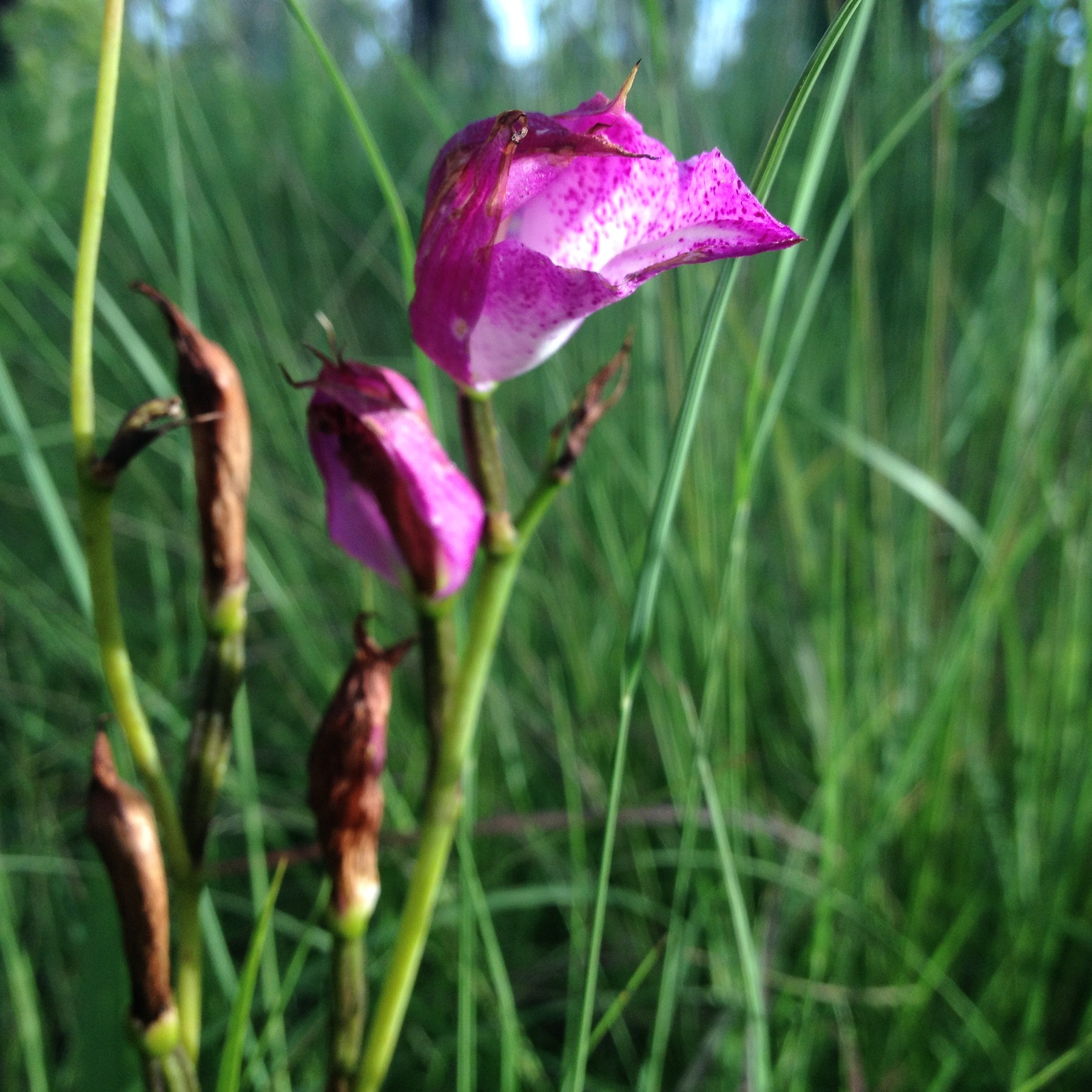 Bletia campanulata is a terrestrial orchid. Its range spans from Mexico to Argentina. It blooms in the rain season.